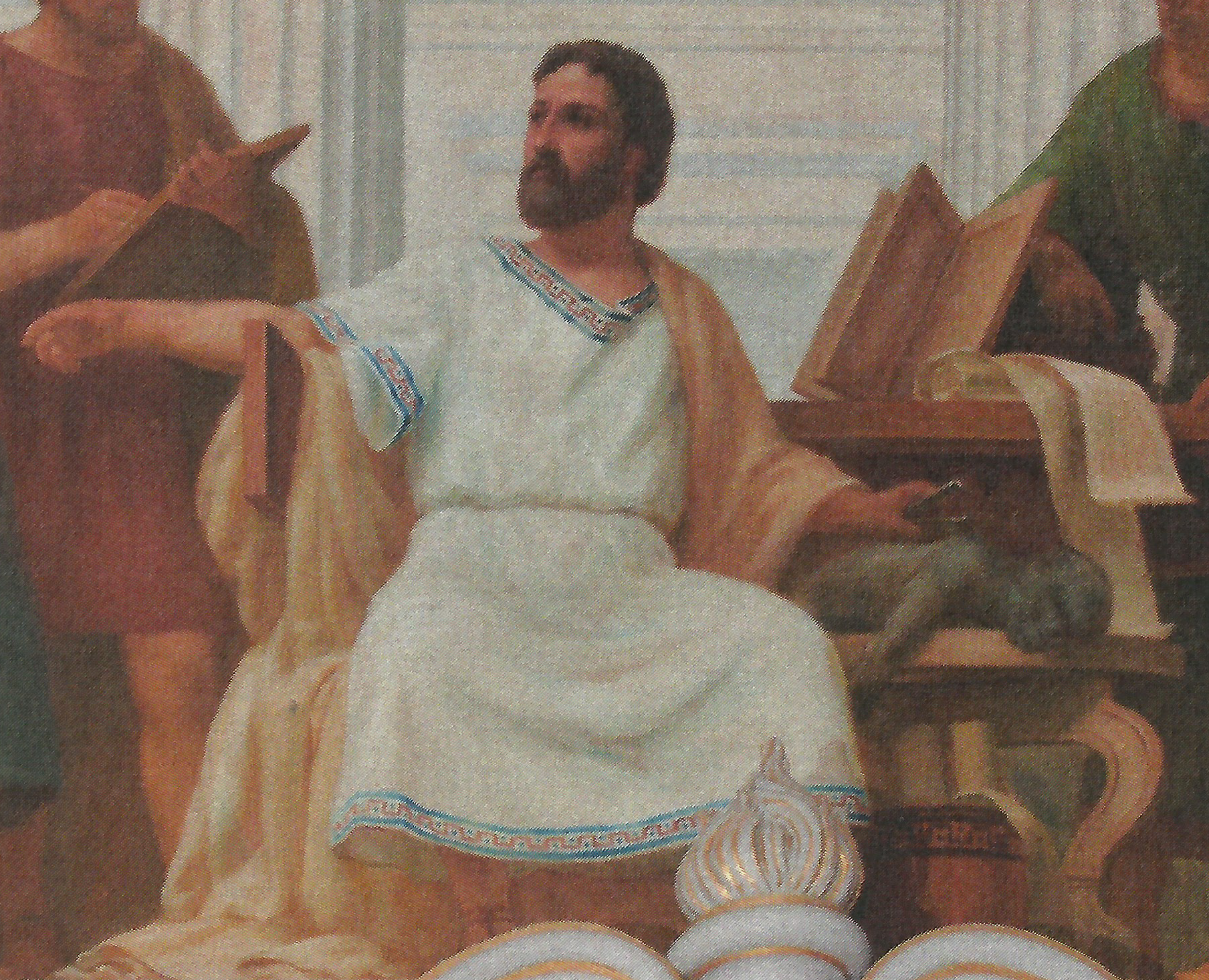 "Medicine in the Middle Ages" (1906), by Veloso Salgado